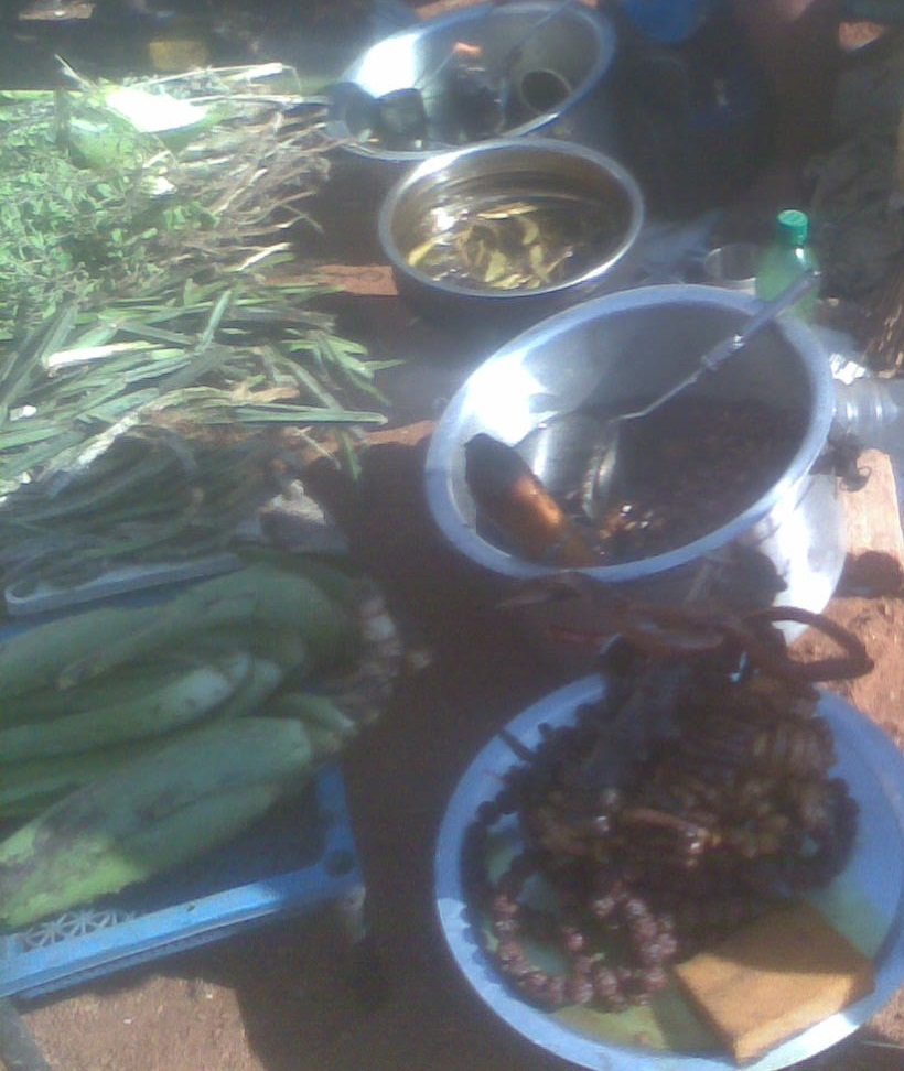 Ayurvada Medicine from Medicinal Plants